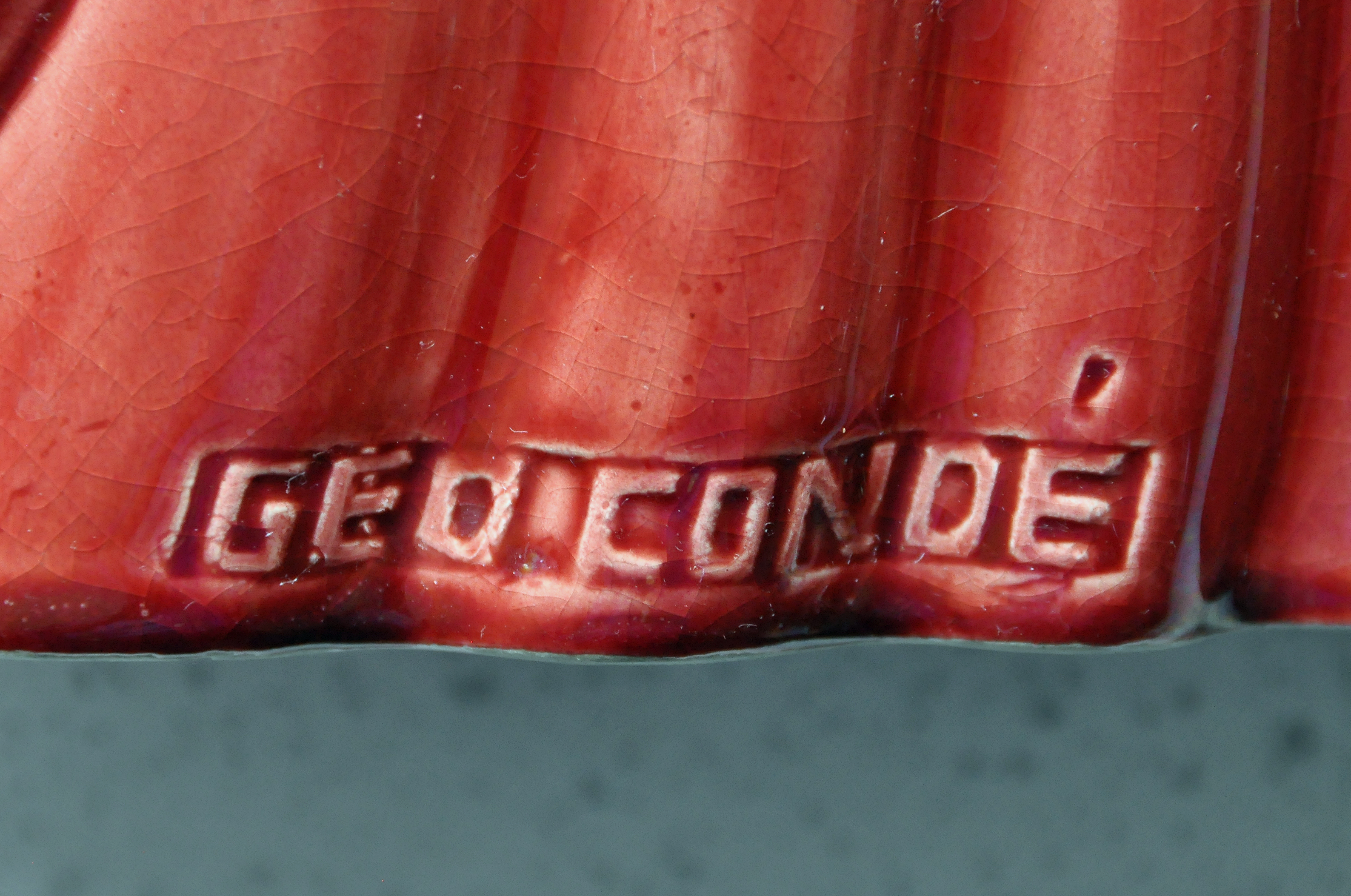 Signature of French artist Georges ("Geo") Condé (1891-1980) on a glazed ceramic figure